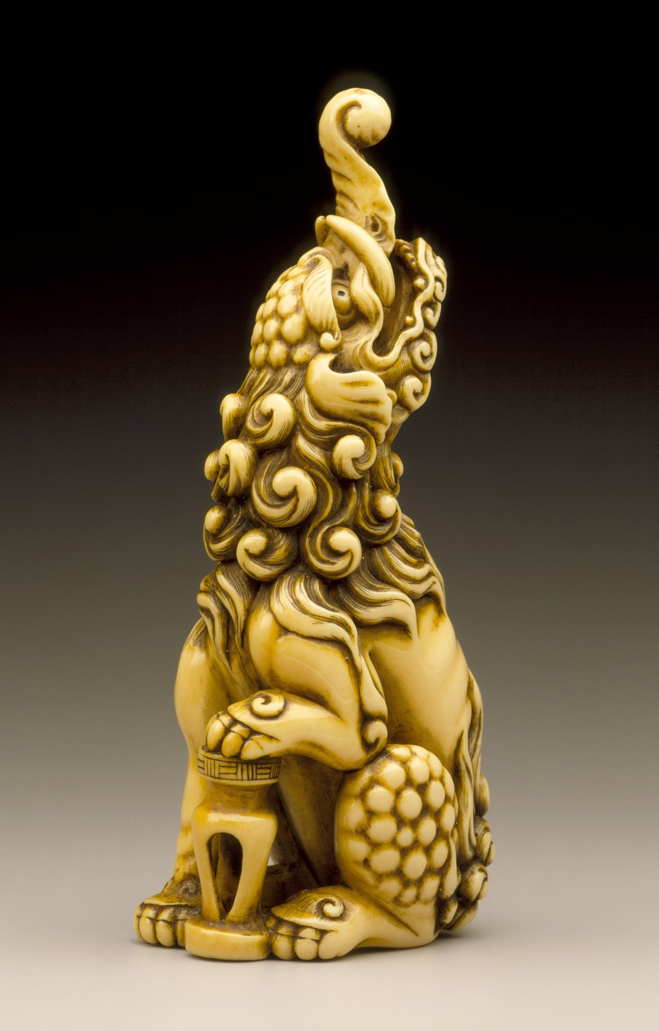 Japan, 18th century Costumes; Accessories Ivory with staining, sumi (ink), and traces of red pigment 3 3/4 x 1 5/8 x 1 3/16 in. (9.5 x 4.1 x 3.0 cm) Raymond and Frances Bushell Collection (AC1998.249.63) Japanese Art Currently on public view: Pavilion for Japanese Art, floor 2